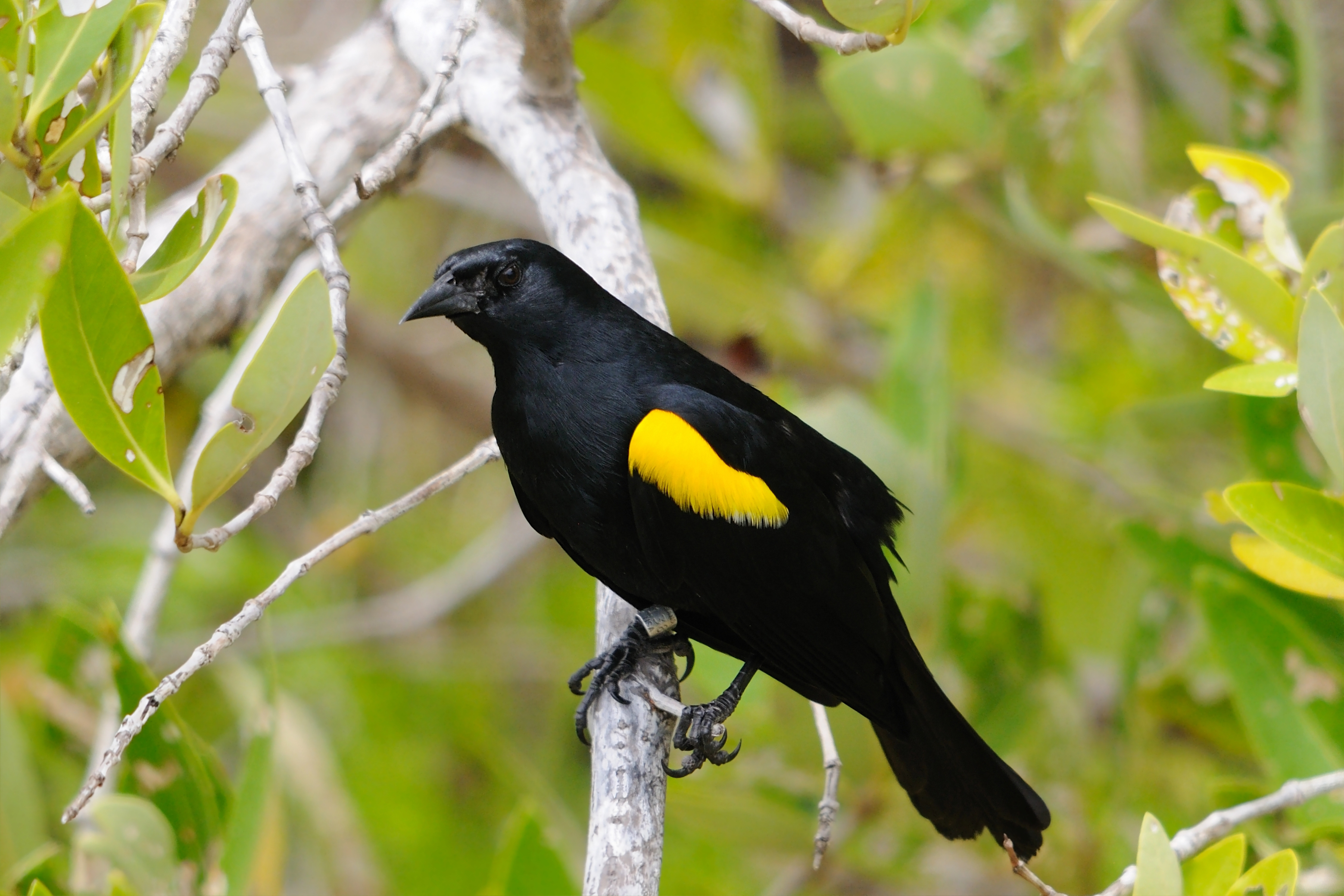 Yellow-shouldered Blackbird Photo by Mike Morel Location: Puerto Rico More information